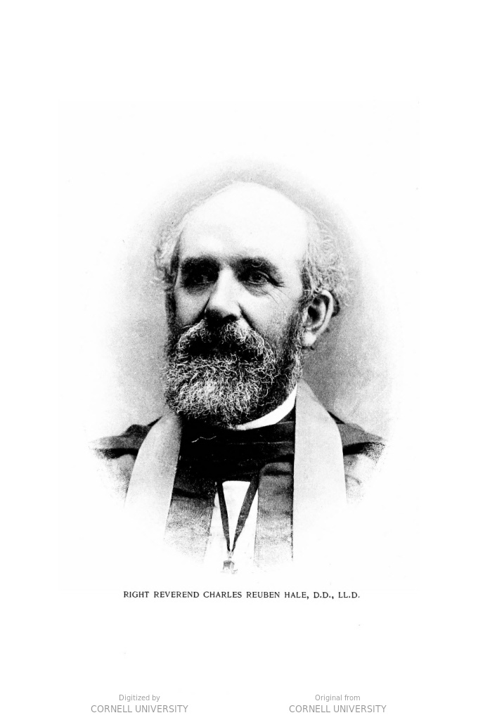 The Rt. Rev. Charles Reuben Hale, Bishop Coadjutor of the Episcopal Diocese of Springfield, 1892-1900. Also U.S. Navy chaplain